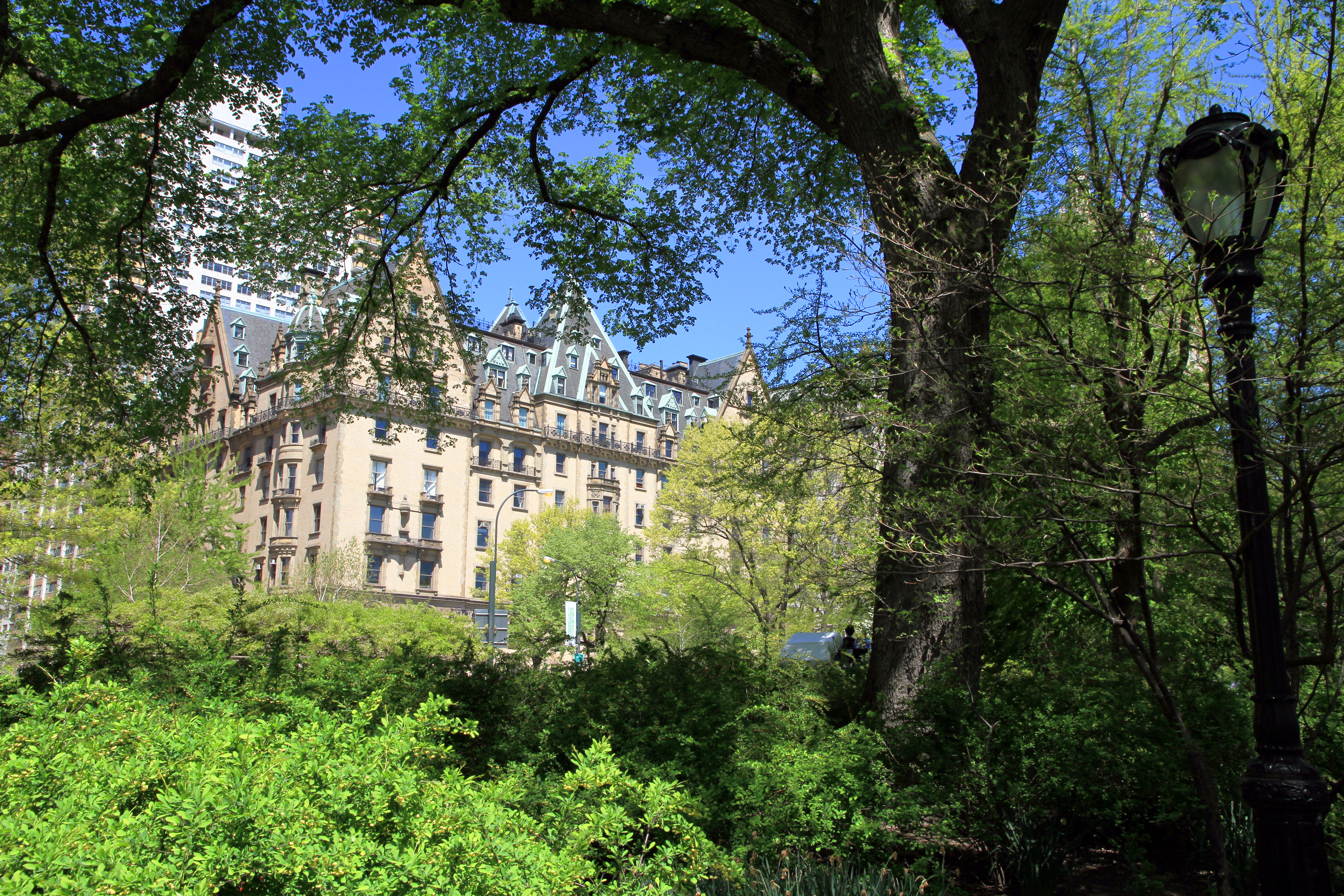 Dakota Building